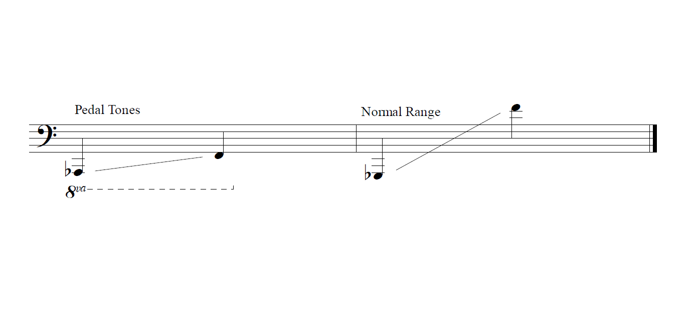 Range of the Contrabass Trombone in F (applicable to any attachment configuration.)